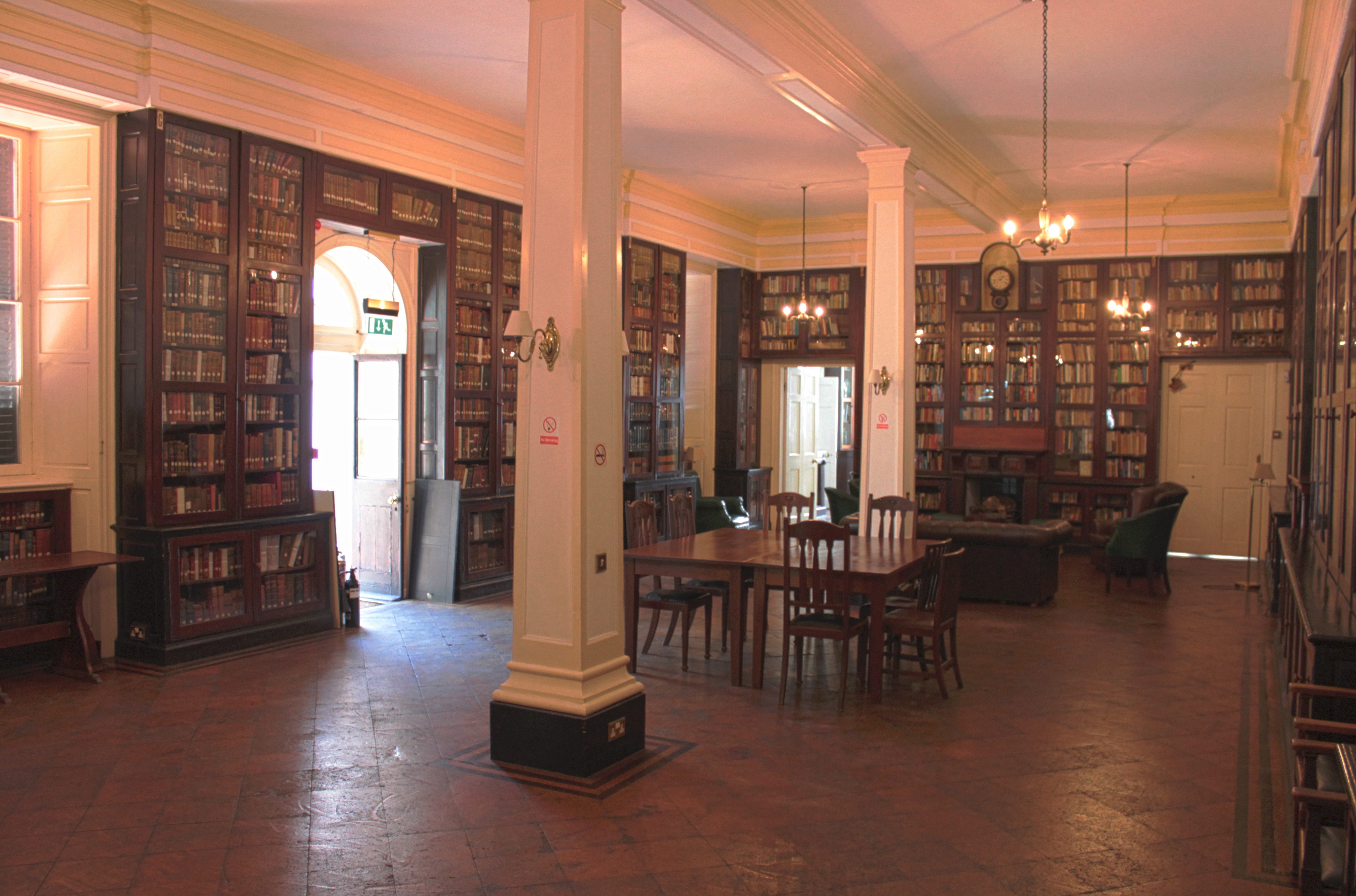 Garrison Library, Gibraltar